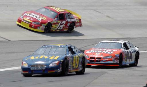 DOVER, De. (June 5, 2004)--Justin Labonte No. 44 U. S. Coast Guard Chevrolet. Labonte, who won his first NASCAR Busch Series race last season at Chicago, collected top-10 speeds. USCG photo by PAC Patrick Montgomery Slug 040605-C-7568M-016 (FR) Location DOVER, DR(sic) United States Special Instructions 040605-C-7568M-016 (FOR RELEASE) Object Name MBNA AMERICA 200 (FOR RELEASE) Credit U.S. COAST GUARD DIGITAL Server Name cgvi.uscg.mil:80 PLS ImageID 244984 Picture Desk ImageID 05914 Committed Yes (Platter 6B) Database Photo